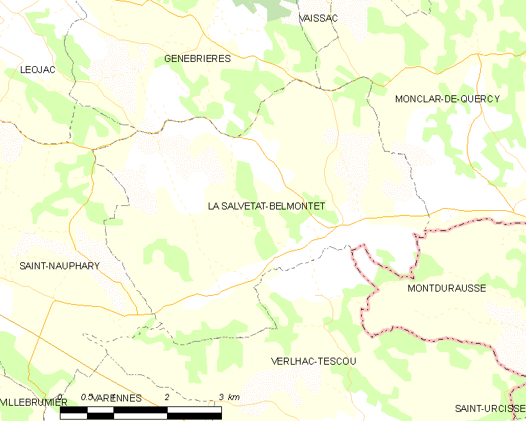 Map of French municipality La Salvetat-Belmontet